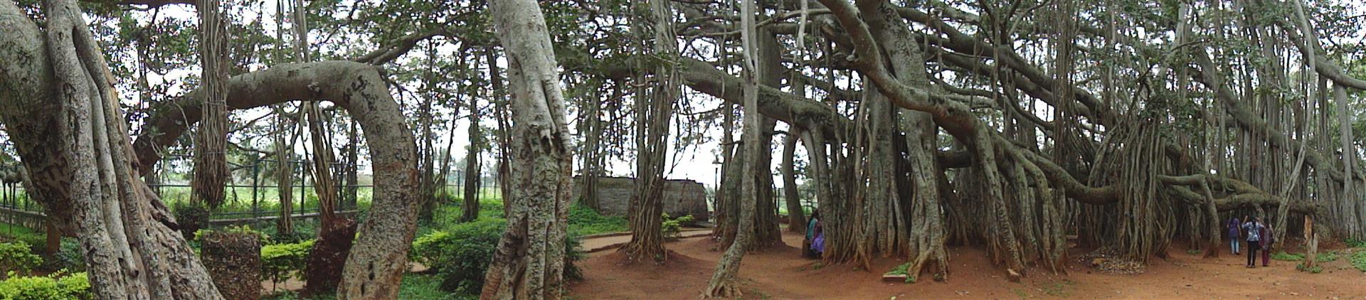 Ramohalli's 'Dodda Alada Mara' is a single Banyan tree that is 400 years old and has spread over 4-5 acres of land. The famous tree is in Ramohalli village, 25 kilometres from Bangalore. The huge canopy is now well maintained by the Horticulture Department. Lots of monkeys merrily swing on the branches, in search of food bought in by the visitors. This tree is apparently the second largest banyan tree in India.